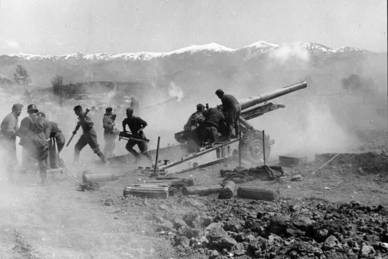 Czechoslovak-made 15 cm schwere Feldhaubitze 37(t) / sFH 37(t)